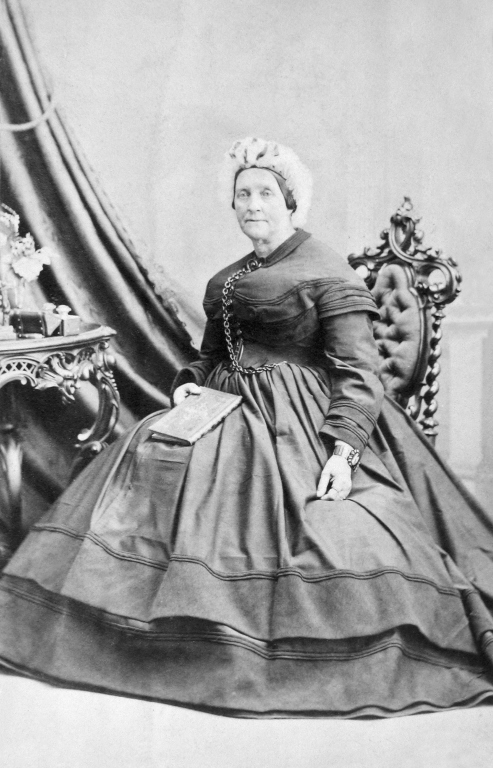 Photograph Mrs. Eliza (Bethell) William Workman, Montreal, QC, 1865 William Notman (1826-1891) 1865, 19th century Silver salts on paper mounted on paper - Albumen process 8.5 x 5.6 cm Purchase from Associated Screen News Ltd. I-15965.1 © McCord Museum